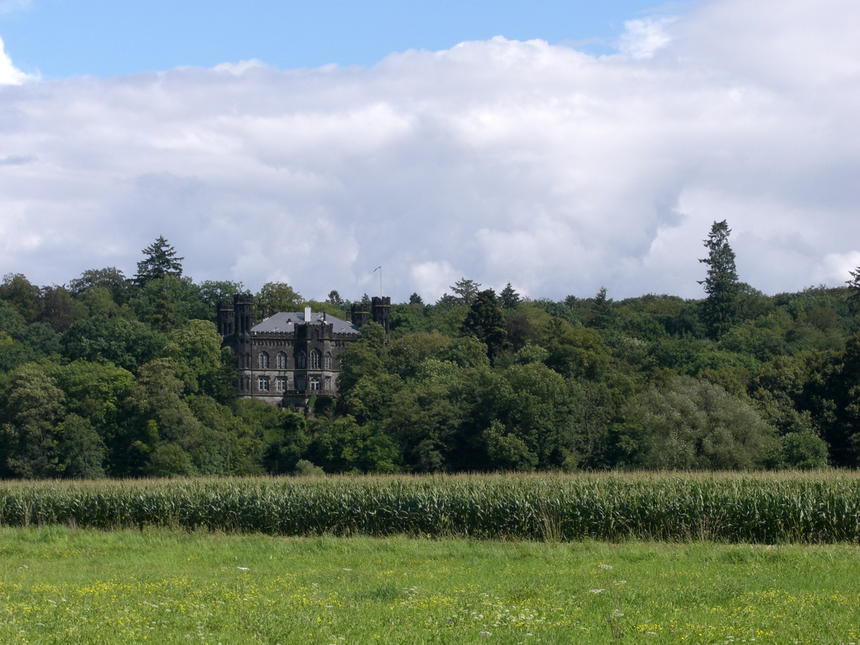 Friedelhausen castle seen from the Lahn valley bicycle route